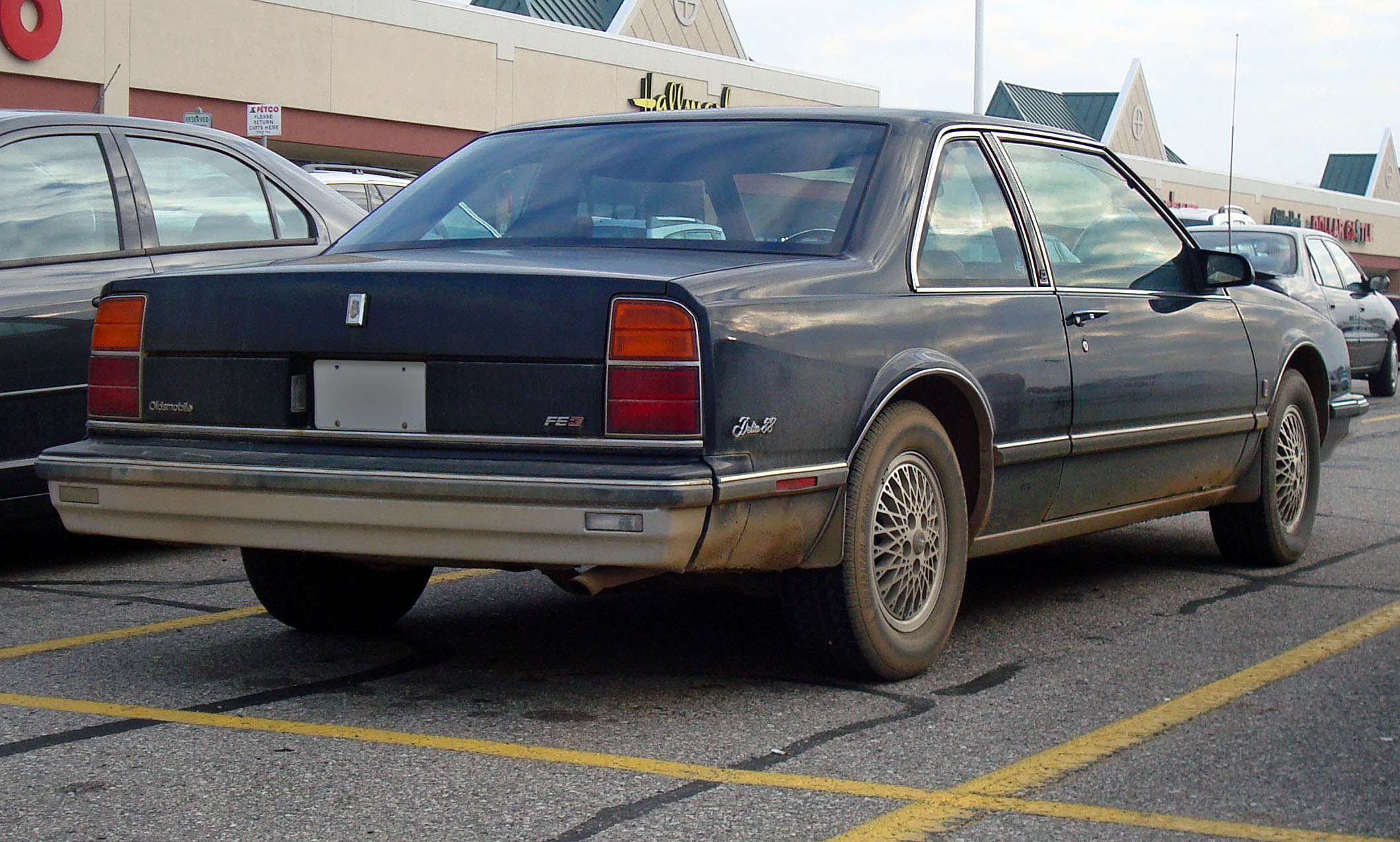 1987 Oldsmobile Delta 88 Coupé photographed in Lansing, Michigan.